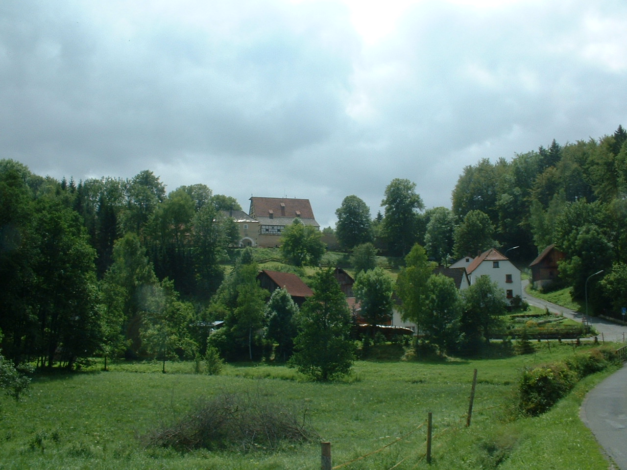 Aufseß village in Germany